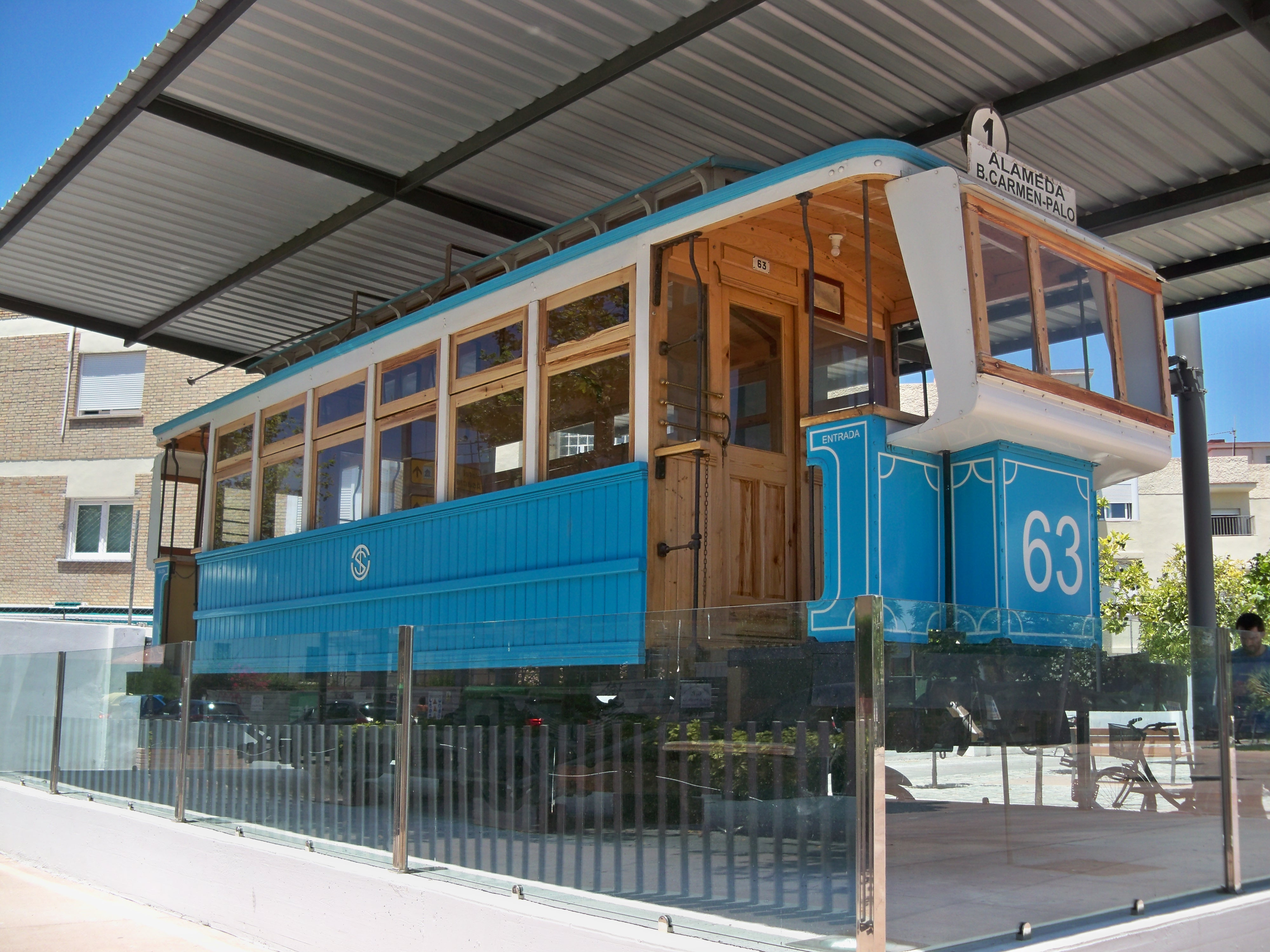 Memorial dedicated to the last tram in Málaga, Spain.